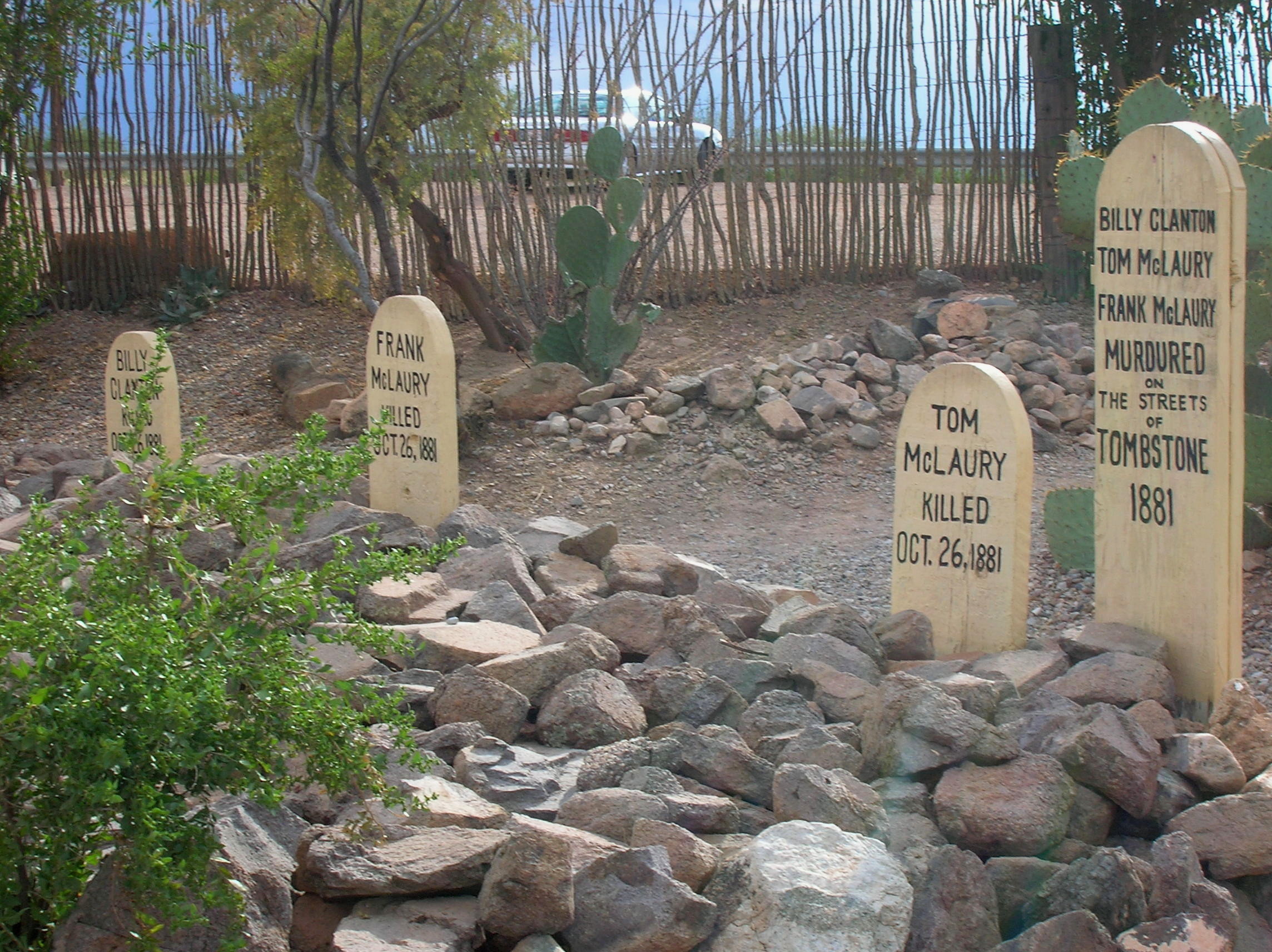 Boot Hill, Tombstone, Arizona